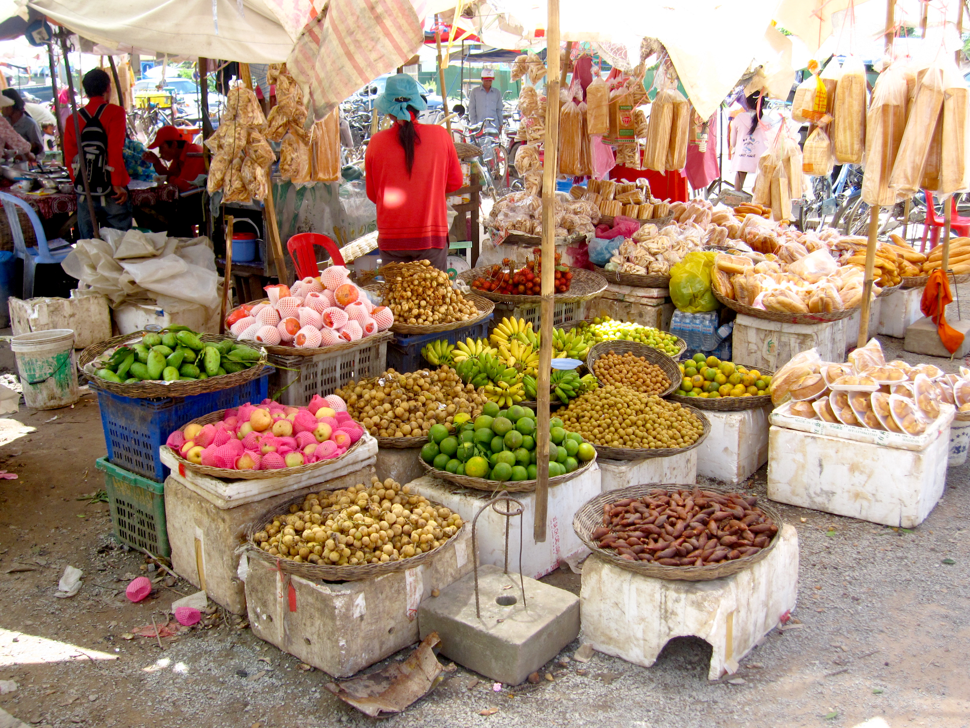 Puok Market (Cambodia) in September 2010.